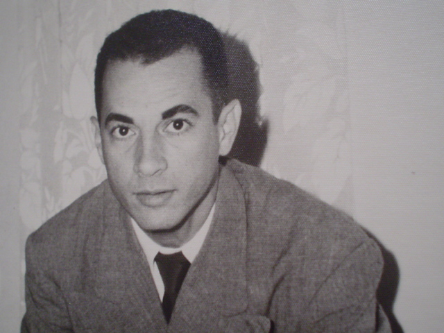 Scan of a portrait photo of artist Jose Bernal taken in 1952